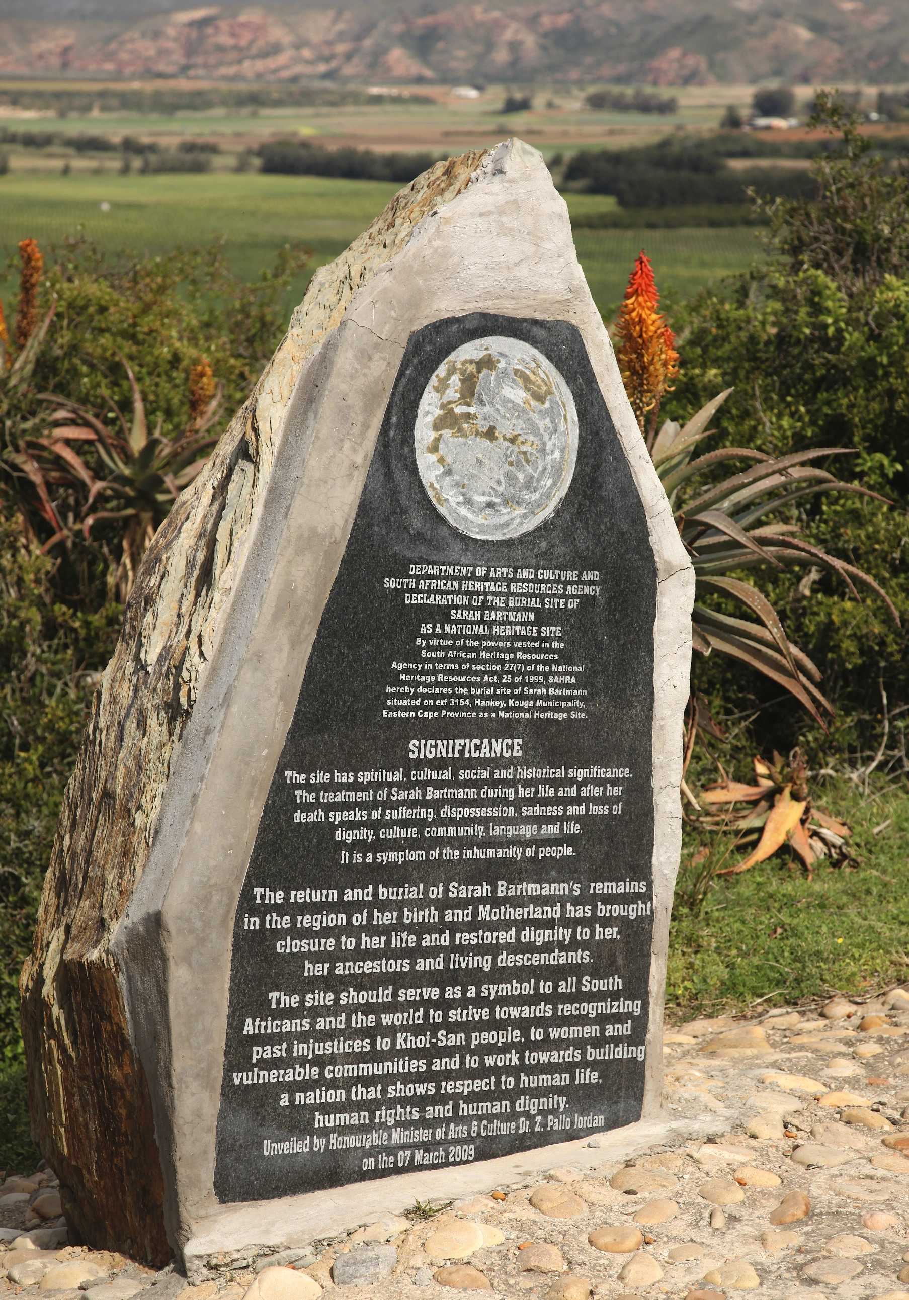 Sarah Bartmann Site, R331Hankey, Kouga Municipality This media shows a South African Protected Site with SAHRA file reference 9/2/034/0004.